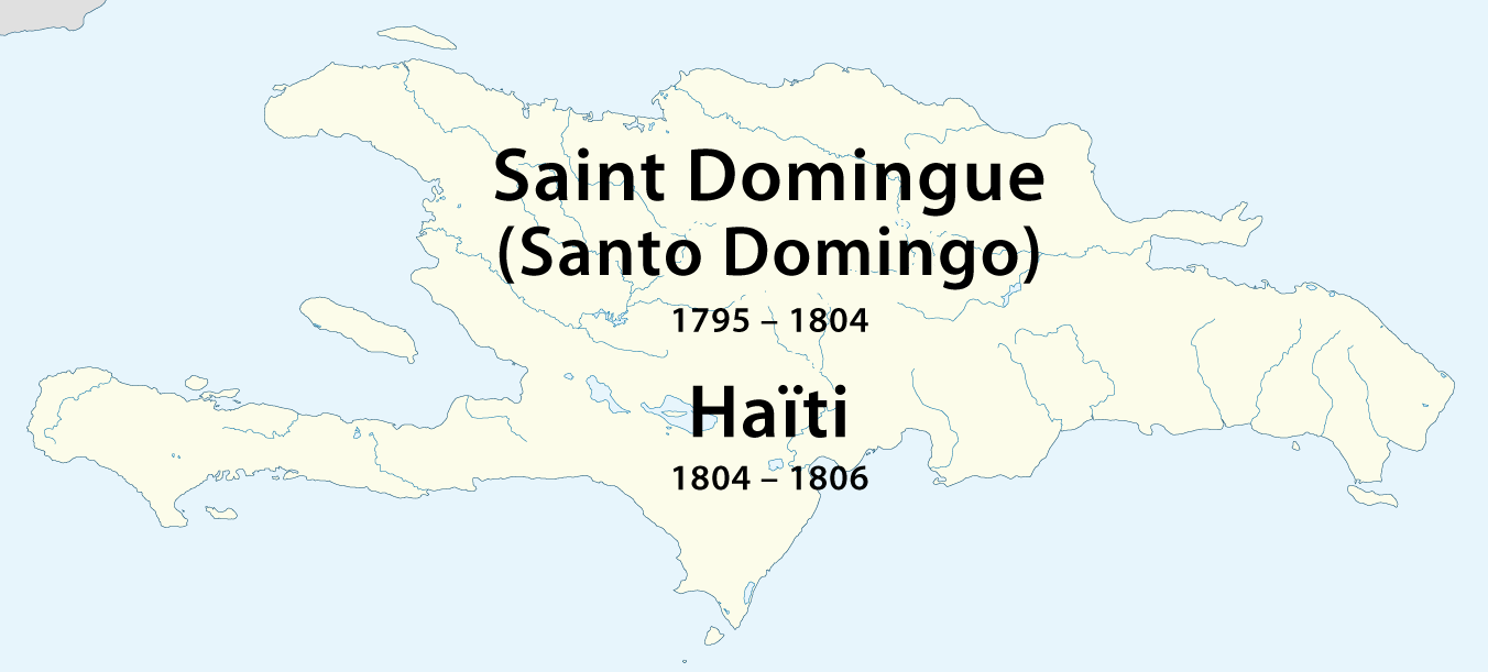 History of the teritorial changes of Hispaniola